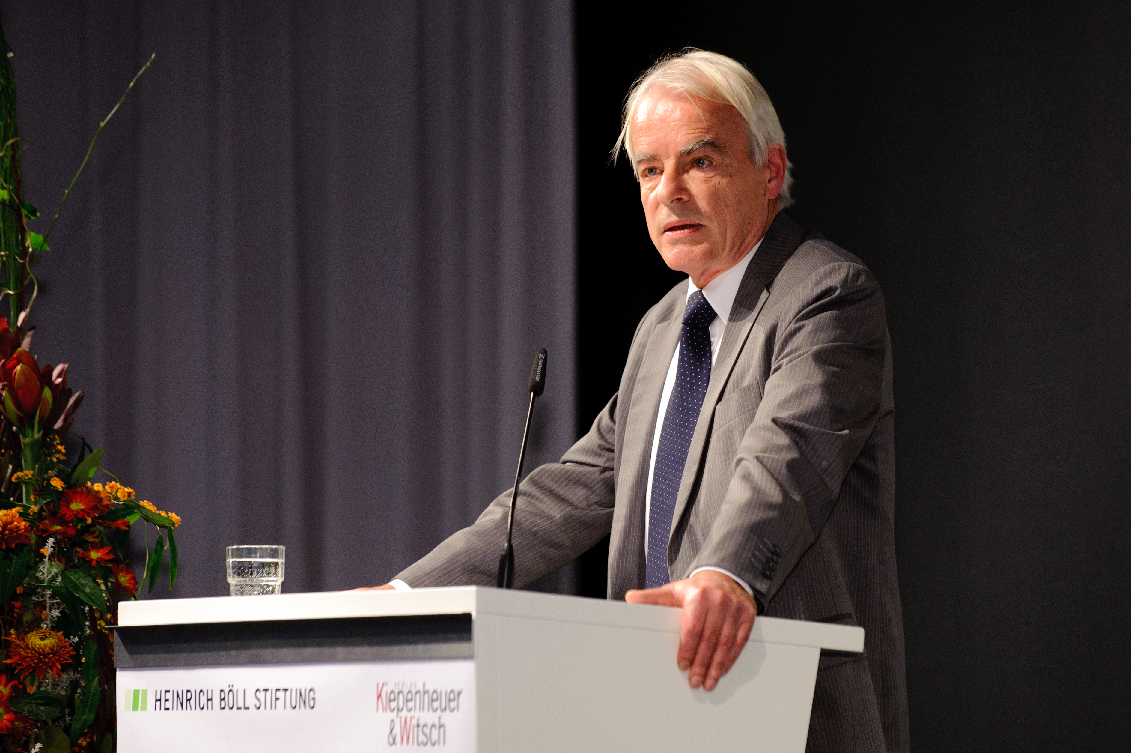 Foto: Stephan Röhl